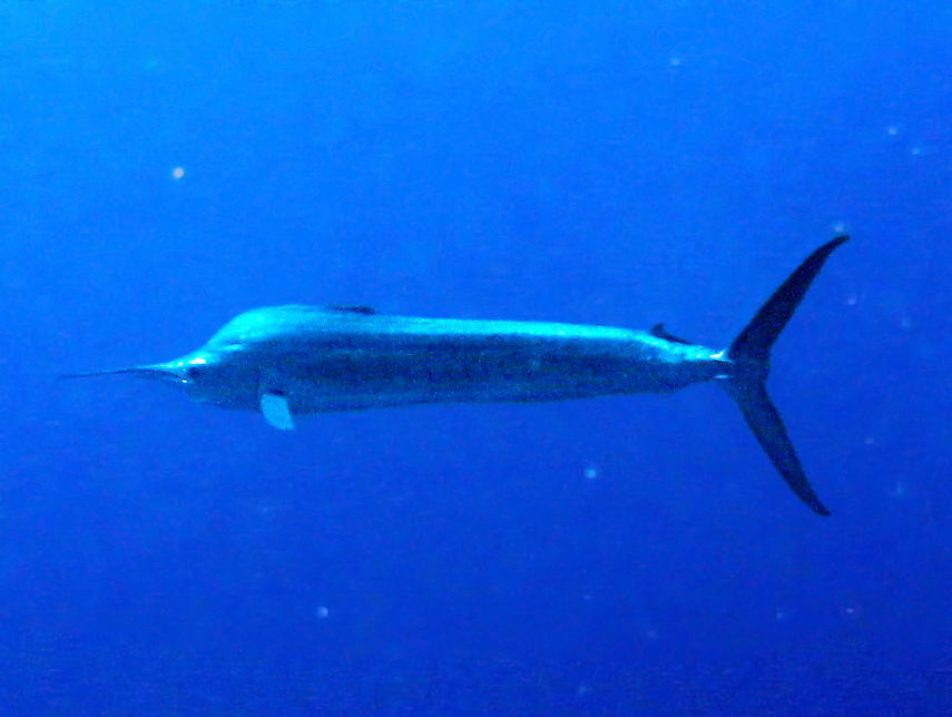 Makaira mazara from French Polynesia